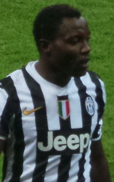 Kwadwo Asamoah